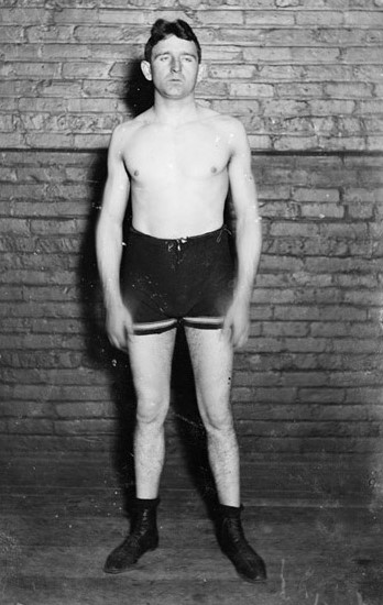 Image of George Gardner, light-heavyweight boxer, standing with his hands at his sides against a brick wall in Chicago, Illinois.